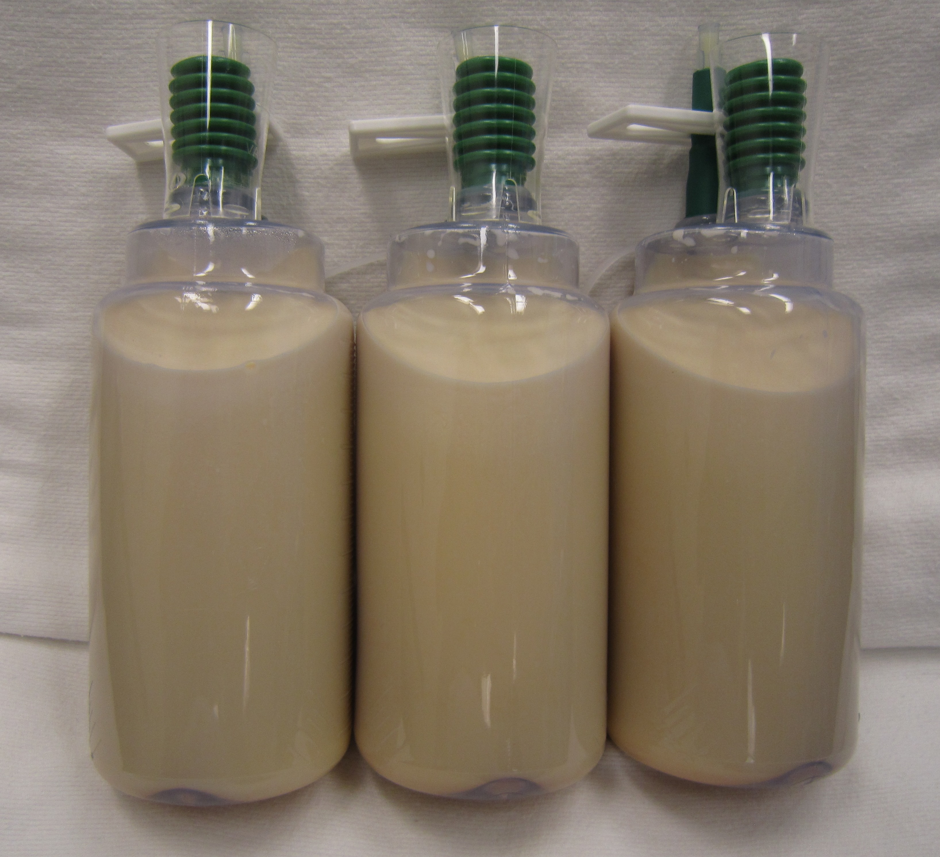 Fluid removed from the chest of a person with a chylothorax